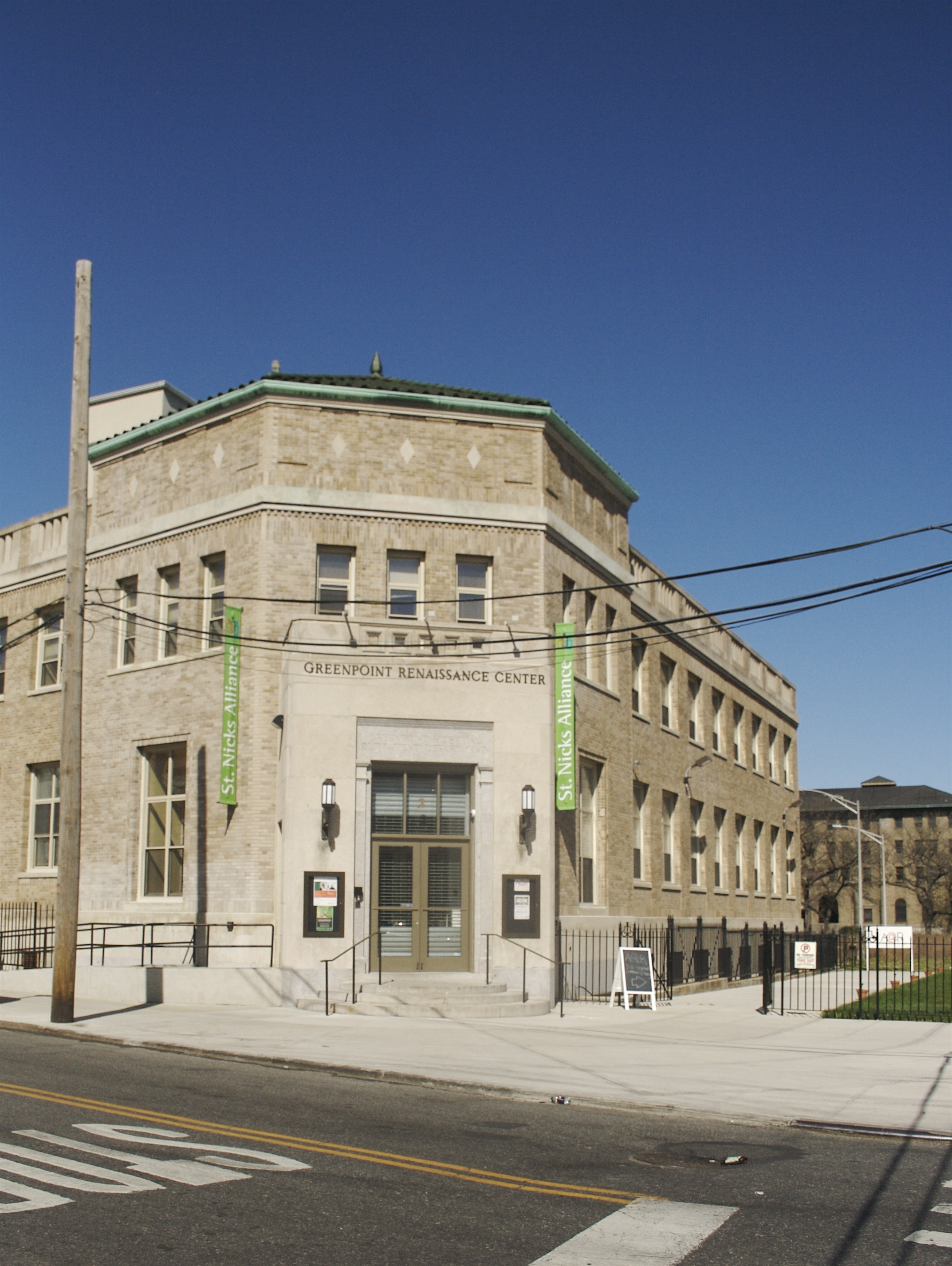 GREC's administrative building, the Renaissance Center. Arts@Renaissance occupies the basement level.